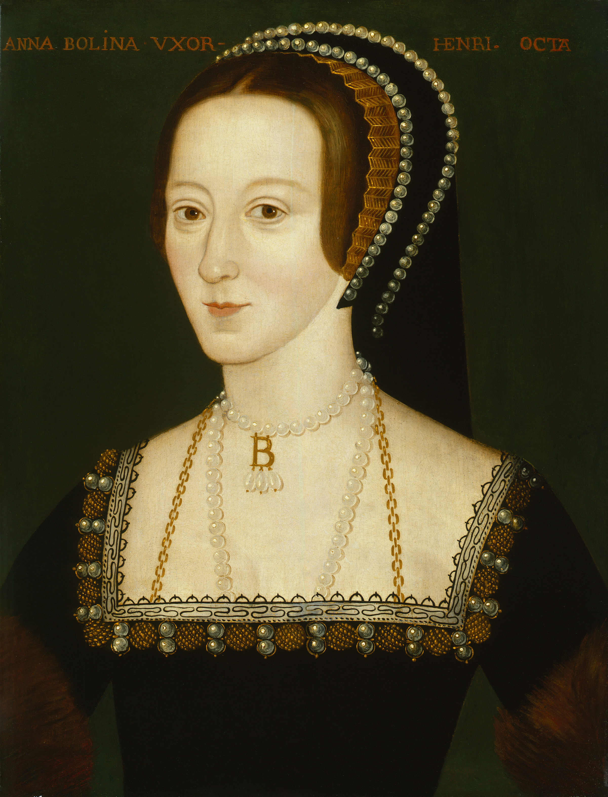 Portrait of Anne Boleyn, probably based on a contemporary portrait which no longer survives.